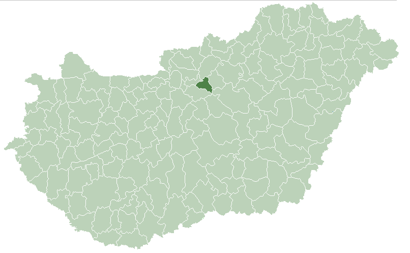 Location of subregion Aszód, Hungary